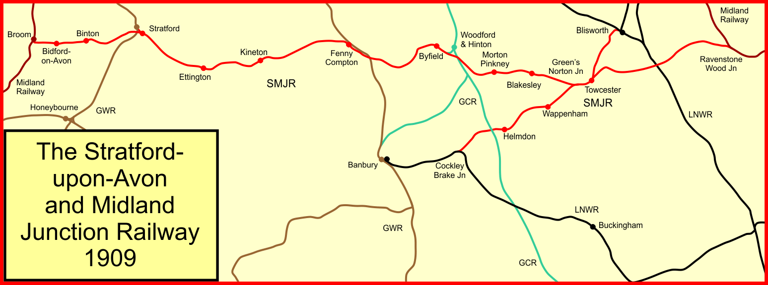 System map of the Stratford-upon-Avon and Midland Junction Railway, England, in 1909